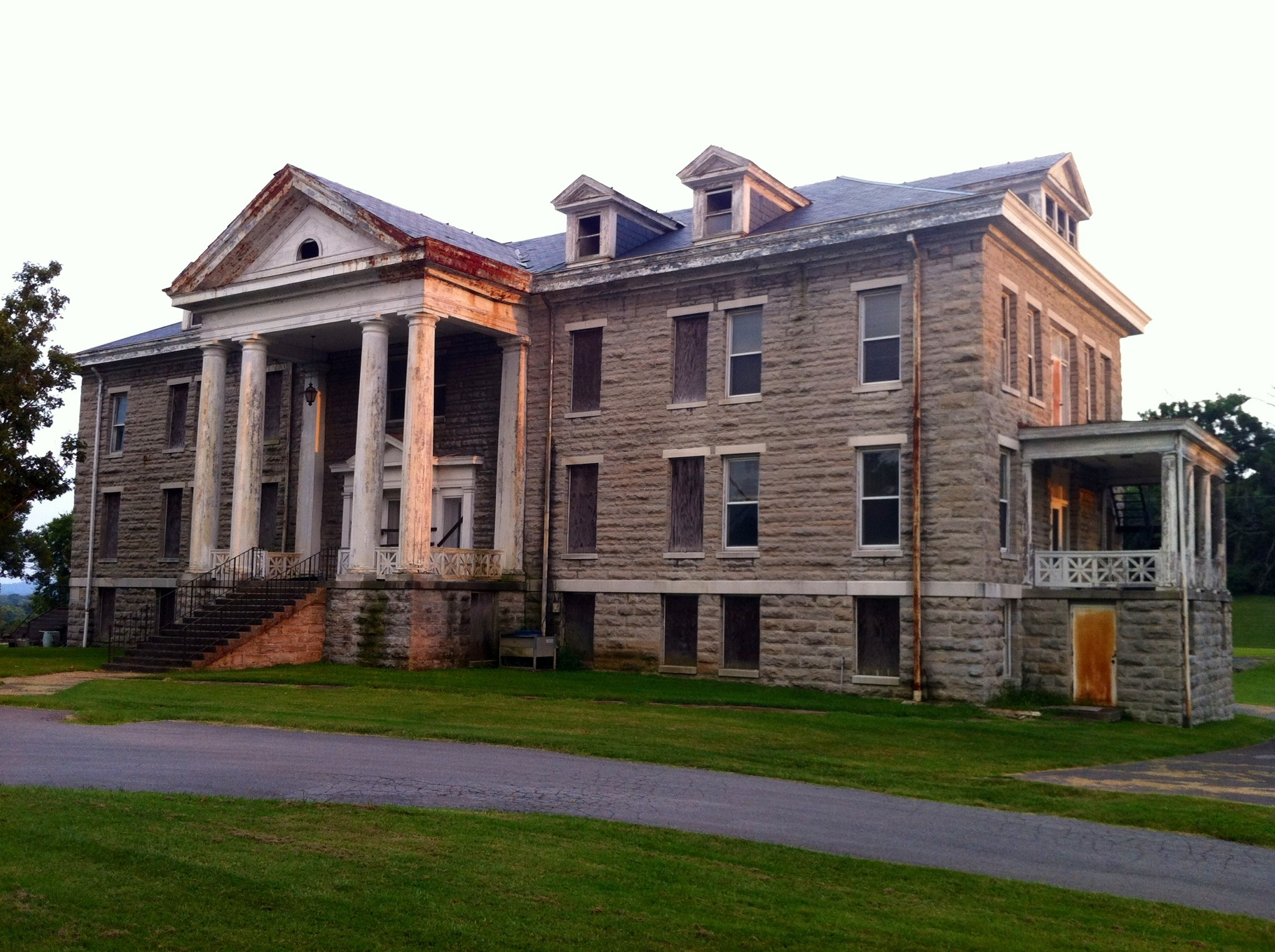 Home for Aged Masons, Ben Allen Rd. and R.S. Gass Boulevard Nashville